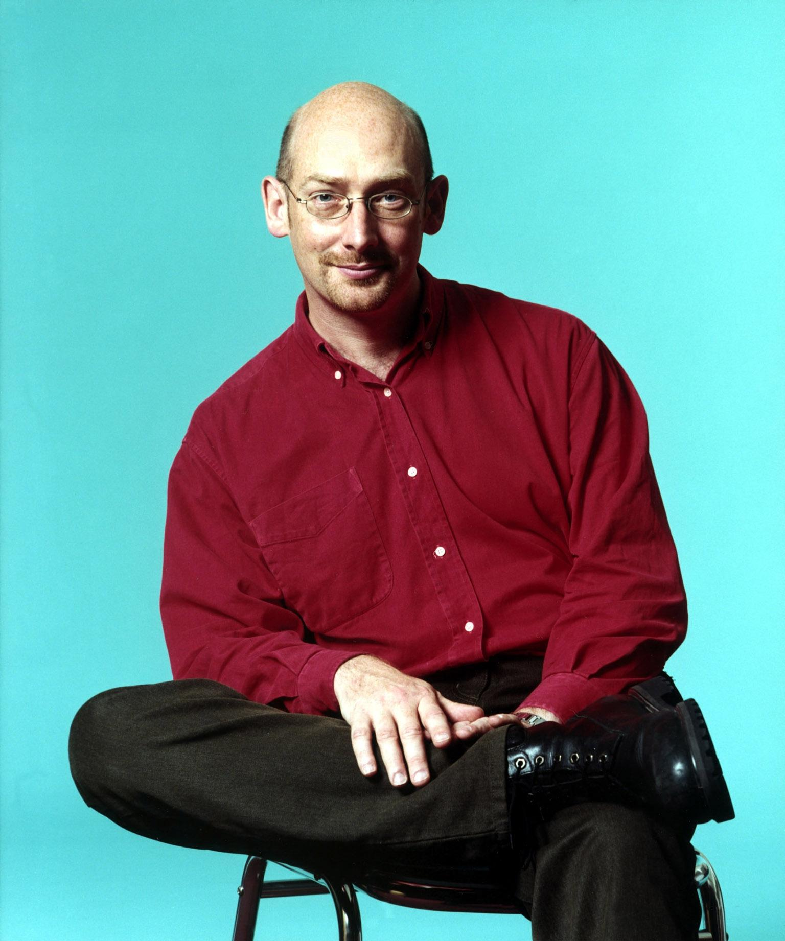 English radio presenter Quentin Cooper.